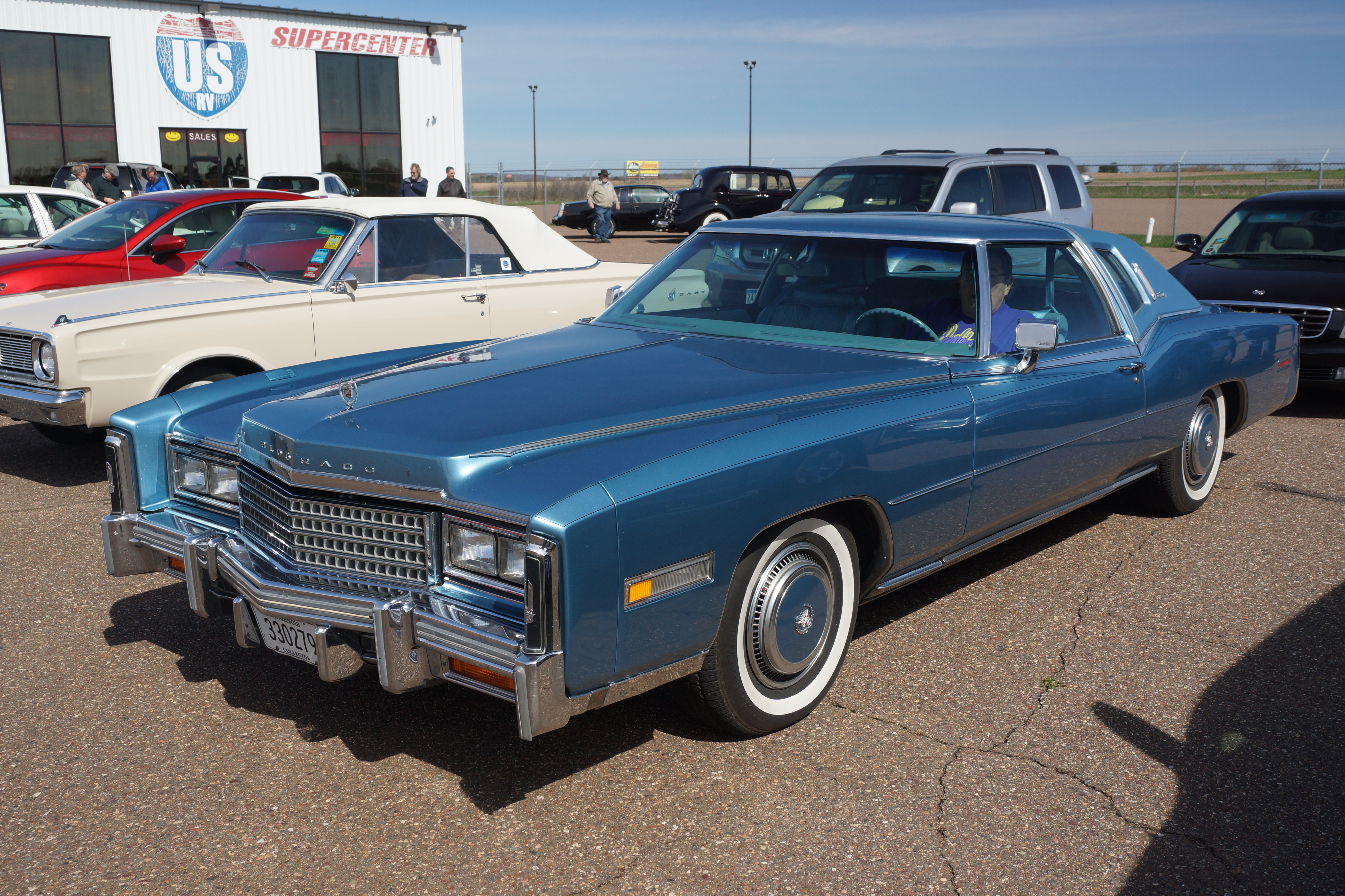 Francis invited me to ride along on the Upper Midwest Region Classic Car Club of America's Spring Garage Tour. Unfortunately, Francis was unable to make it, so I went and took pictures for him. The tour started in Hastings, Minnesota and ventured east into Wisconsin. The day started out sunny, but got cloudier as the day progressed. Still a nice day and good for avoiding shadows on outdoor shots. Even though I was busy taking pictures, I had a chance to talk to a lot of nice people and see some very amazing cars. Taking pictures on a garage tour is always a little frustrating. You get to see these beautiful cars, but usually a garage setting is too tight to get nice pictures. The route was beautiful, but I had a few missed turns primarily because Wisconsin's road marking methods are a little different than what I am used to in Minnesota. It was a great day and I would like to shout out a big "THANK YOU!" to the hosts that opened up their garages and to event coordinators that put the whole thing together. Click here for more car pictures at my Flickr site. Or here for my Car Crazy Tumblr site. Or on Twitter @DVS1mn.